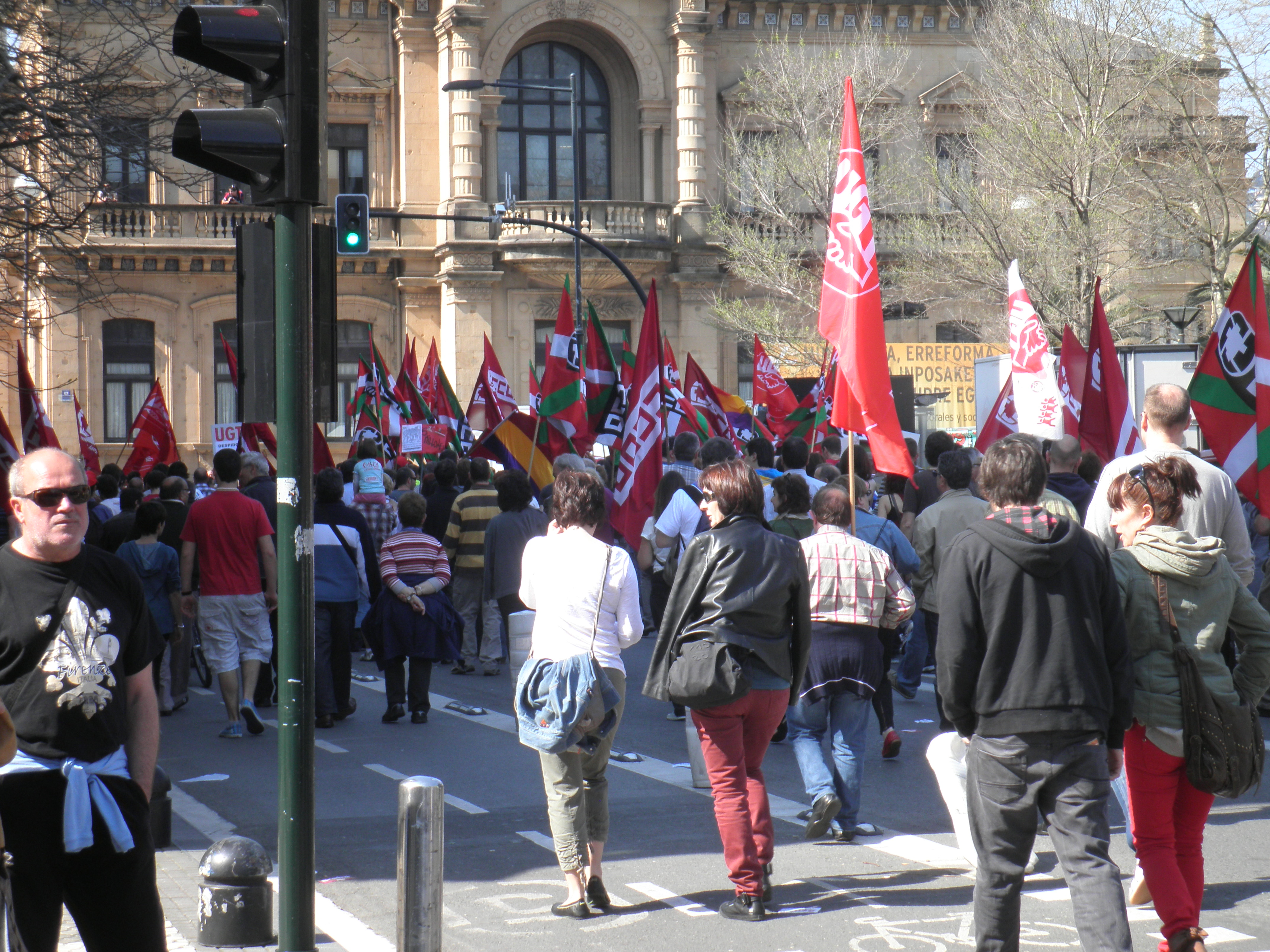 2012-03-29 general strike in Donostia.